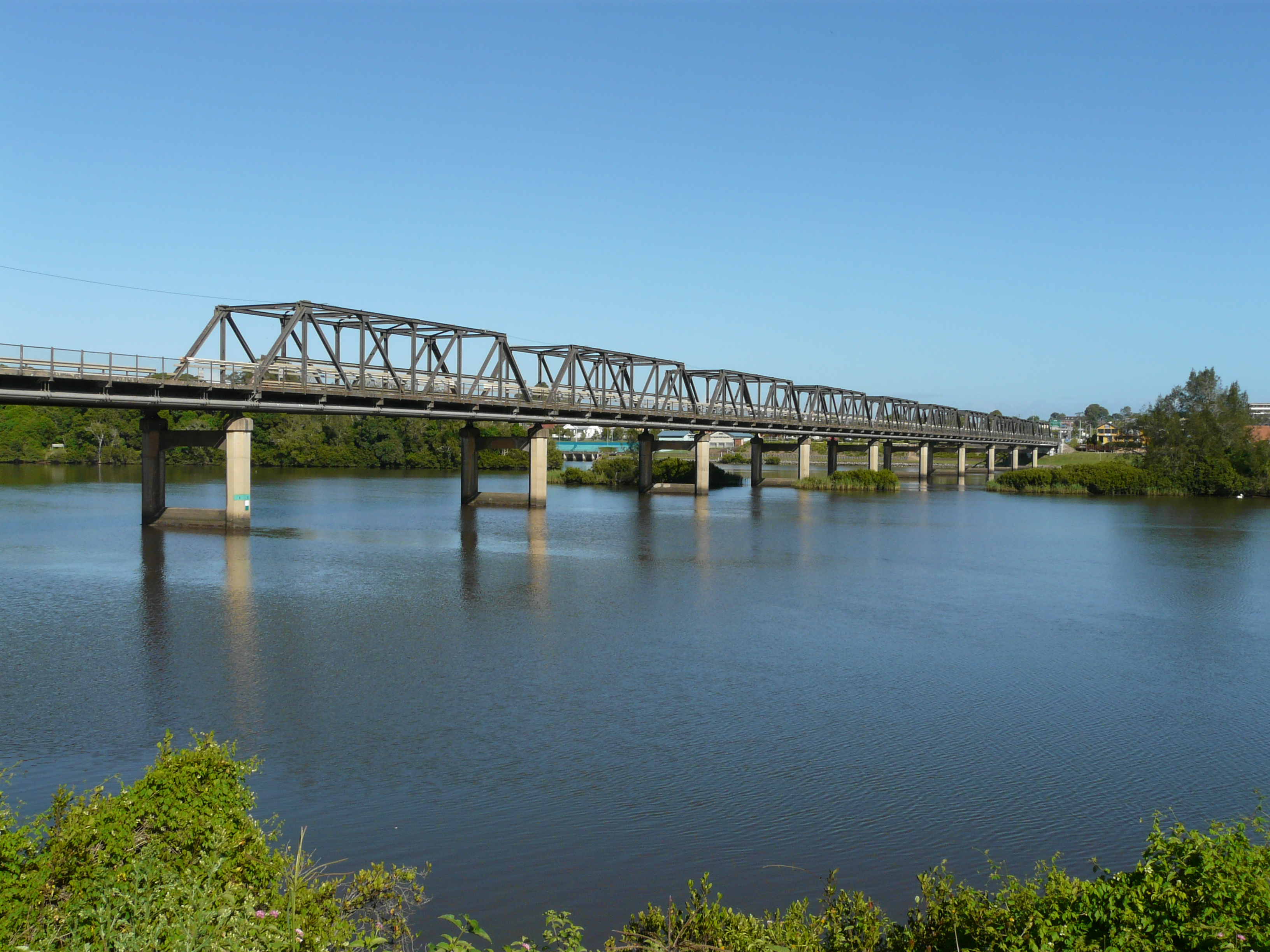 Bridge on the old Pacific Highway at Taree, now bypassed but still used for local traffic.